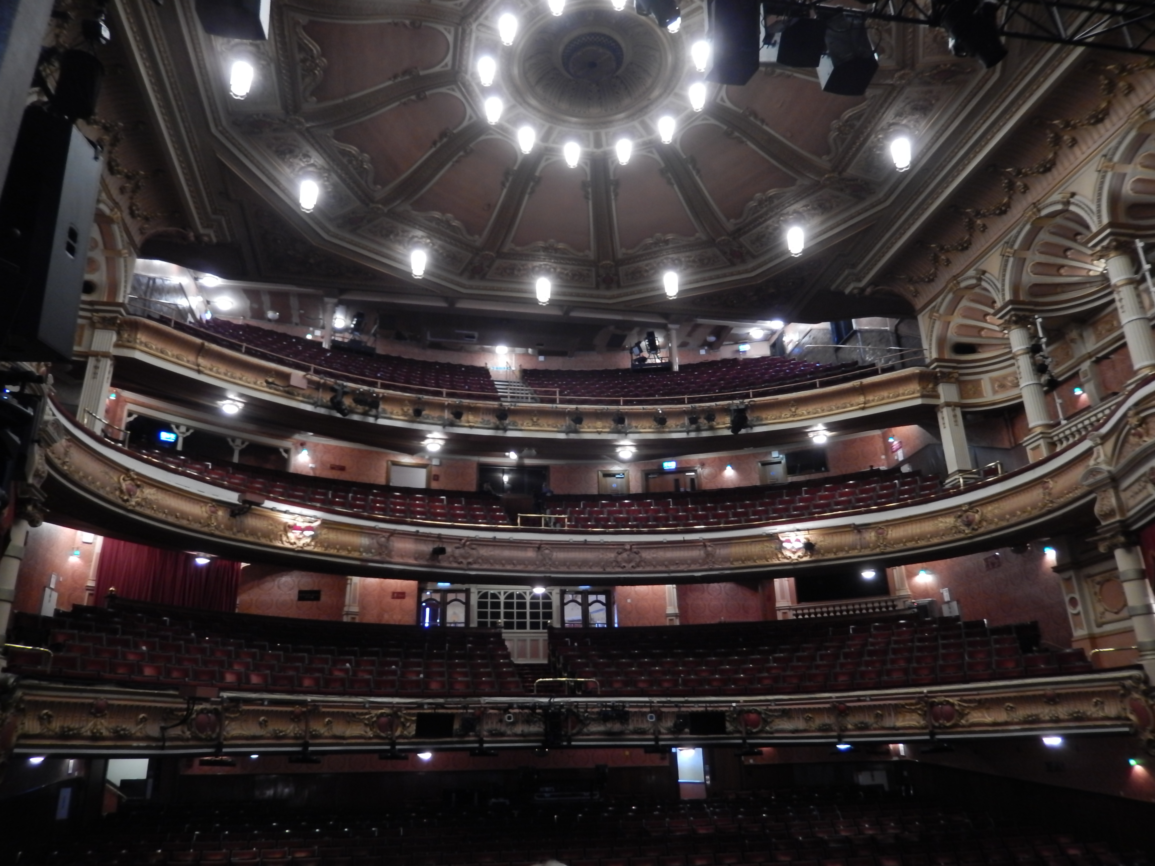 King's Theatre, Bath Street, Glasgow. The view of the seating from the stage. Wikidata has entry Q6411121 with data related to this item.